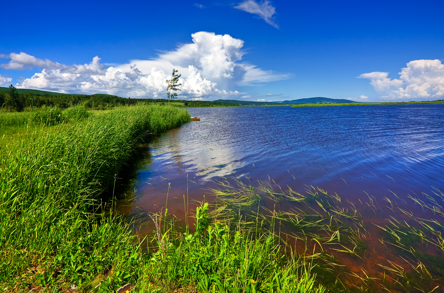 Landscape scenery of Beaver Brook, New Brunswick. HDR composite from multiple exposures. This photo is released under a standard Creative Commons License - Attribution 3.0 Unported. It gives you a lot of freedom to use my work commercially as long as you credit and link back to the same free image from my website